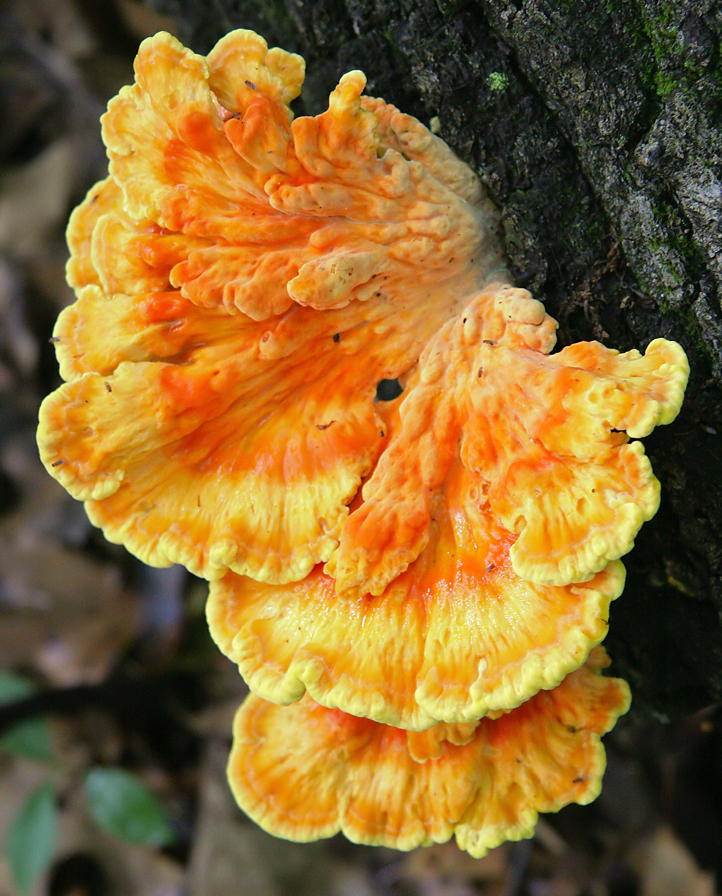 Chicken of the Woods (Laetiporus sulphureus)